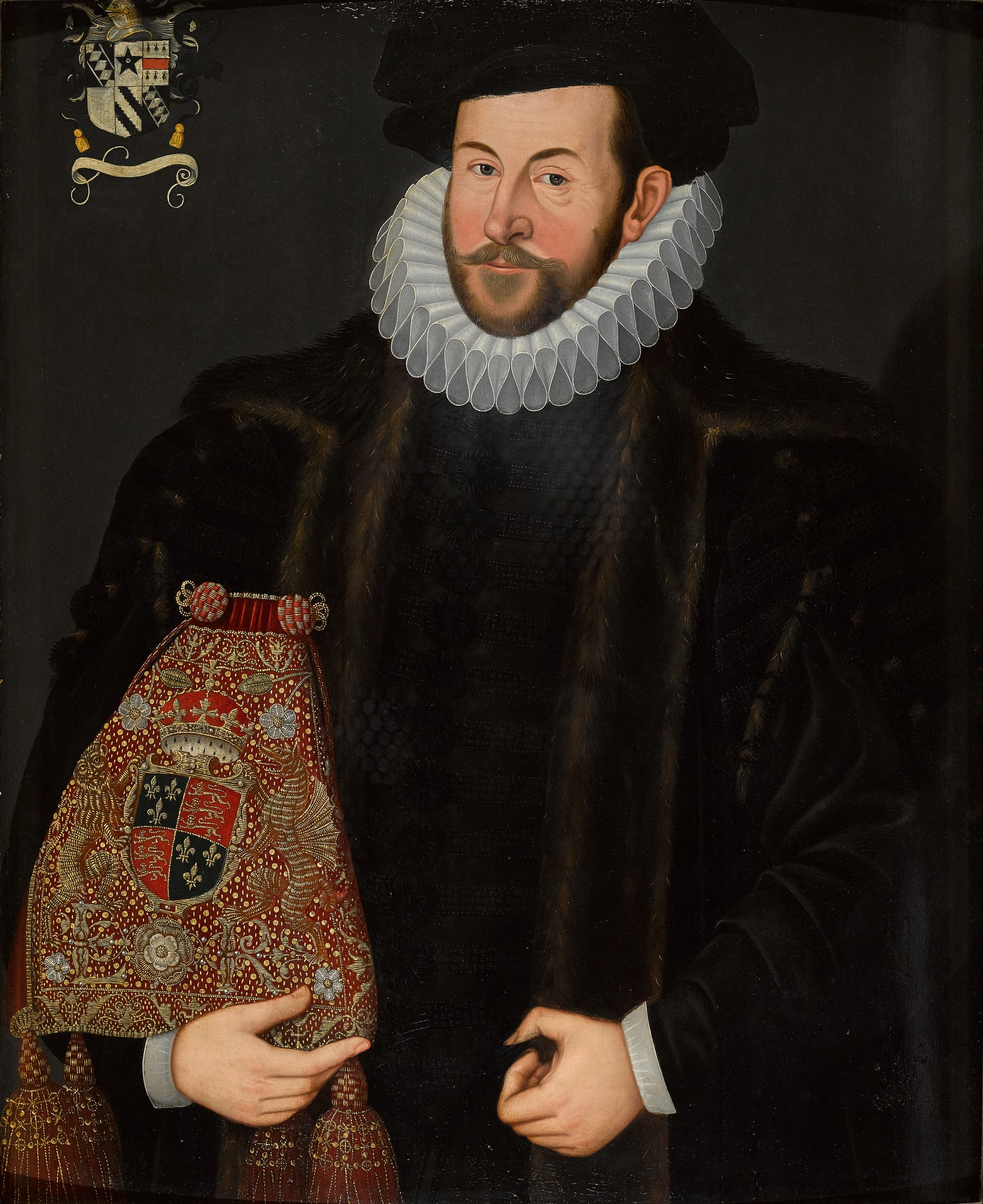 Portrait of Sir John Puckering (died 1596), holding the Lord Keeper's Purse embroidered with the royal arms of Queen Elizabeth I. His arms above left display quarterly of six: 1&6: Sable, five fusils in bend cotised argent or Sable, a bend lozengy cotised argent (Puckering); 2: Argent, a mullet sable pierced of the field (Ashton, for his mother), possible other quarters are: Lever[1]